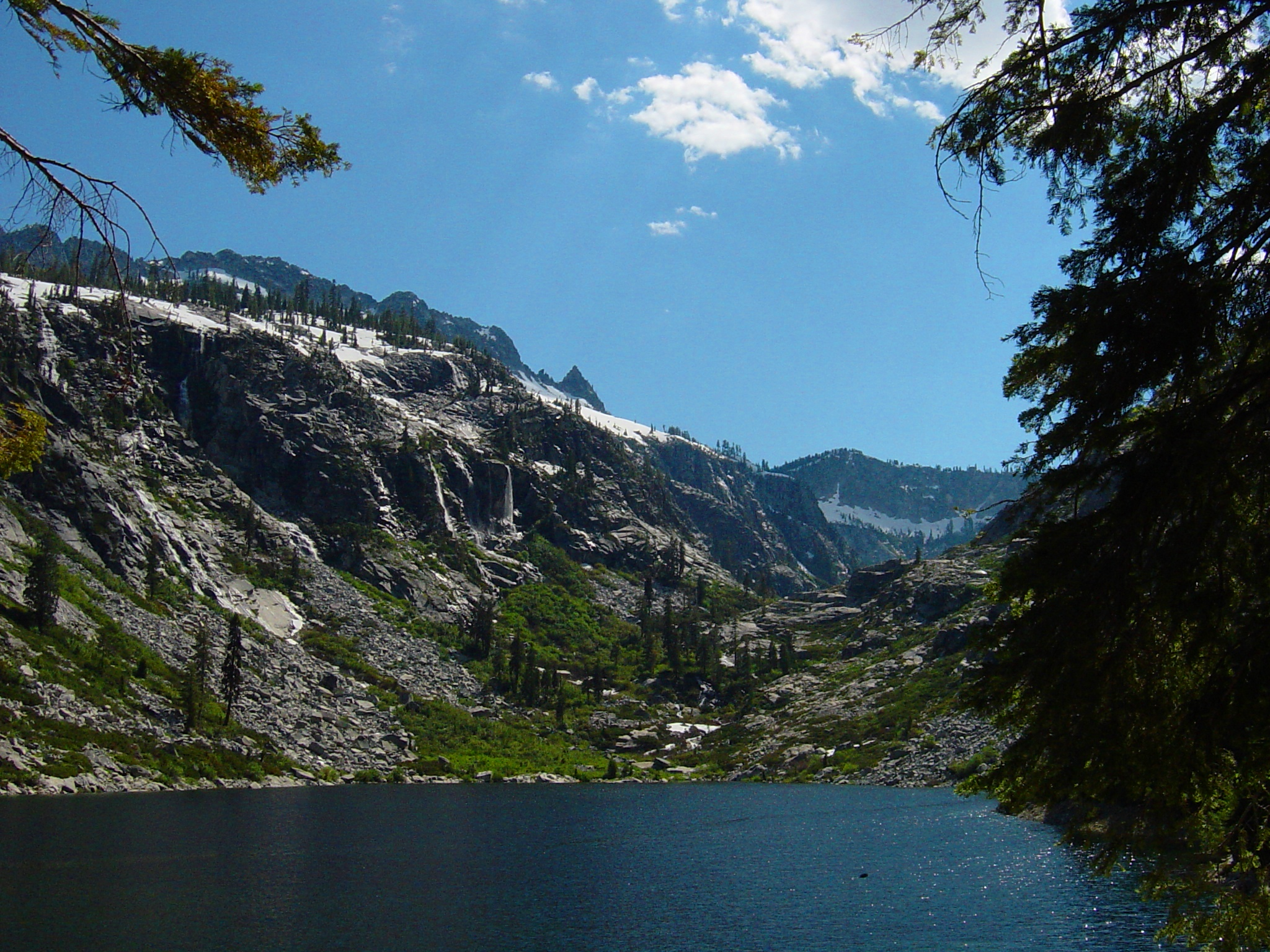 An alpine lake with waterfalls from the granite cliffs, high in the Trinity Alps Wilderness. In the Trinity Alps—Klamath Mountains, northern California.